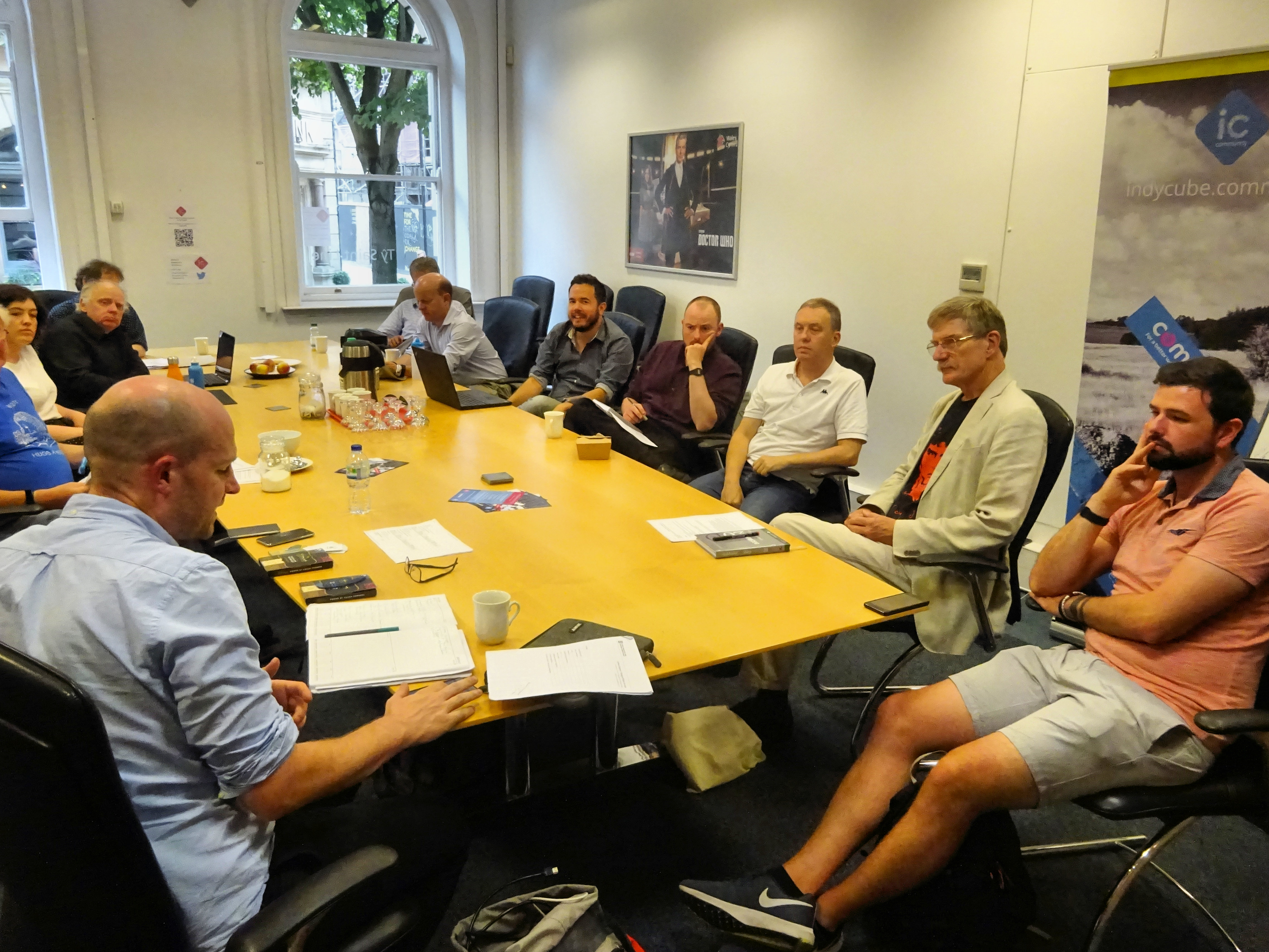 Community User Group Wales AGM August 2018 at Eisteddfod Caerdydd. L - R: Dr Dafydd Tudur (Chair; Head of Digital Access Section at the National Library of Wales), Les Barker (poet and author), Dr Gwenno Elin Griffith (Cardiff University), Alwyn ap Huw (bloger and author), Gareth Morlais (Welsh Government), Dr Hywel Jones (hidden), Dr Dafydd Trystan (Registrar and Senior Academic manager at Coleg Cymraeg), Carl Morris (Web developer and IT consultant), Siôn Jobbins (author, lecturer at Aberystwyth University), Prof Deri Tomos (Emeritus Professor at Bangor University) and Jason Evans (National Wikimedian; National Library of Wales). Also present: Robin Llwyd ab Owain, Wikimedia UK Manager (Wales); camera).